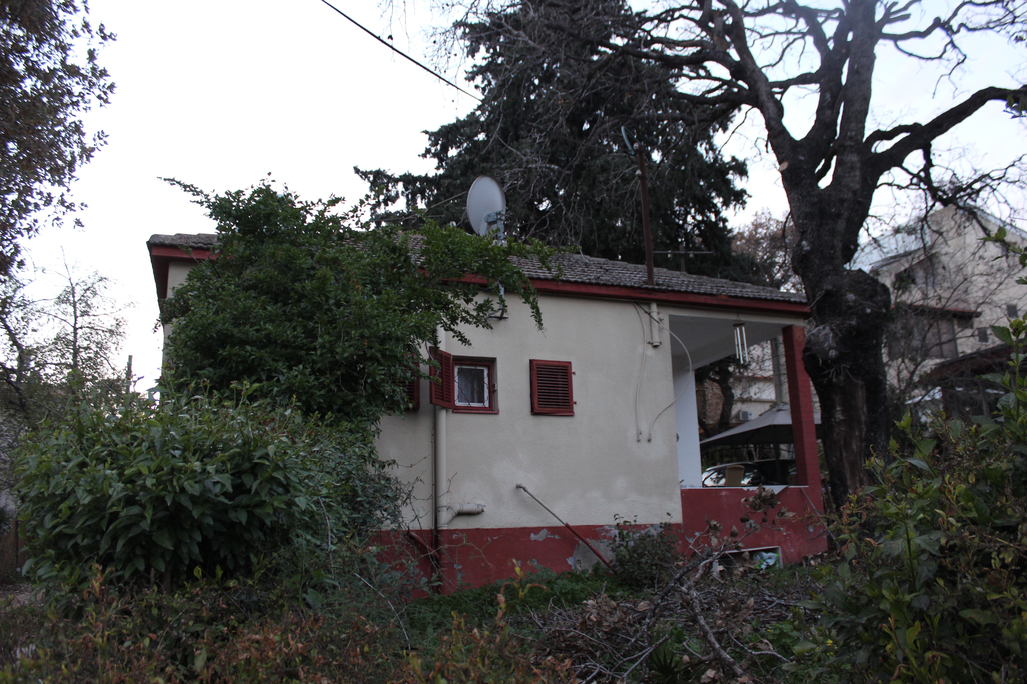 The town of Kiryat Tivon, Haifa district, Israel.